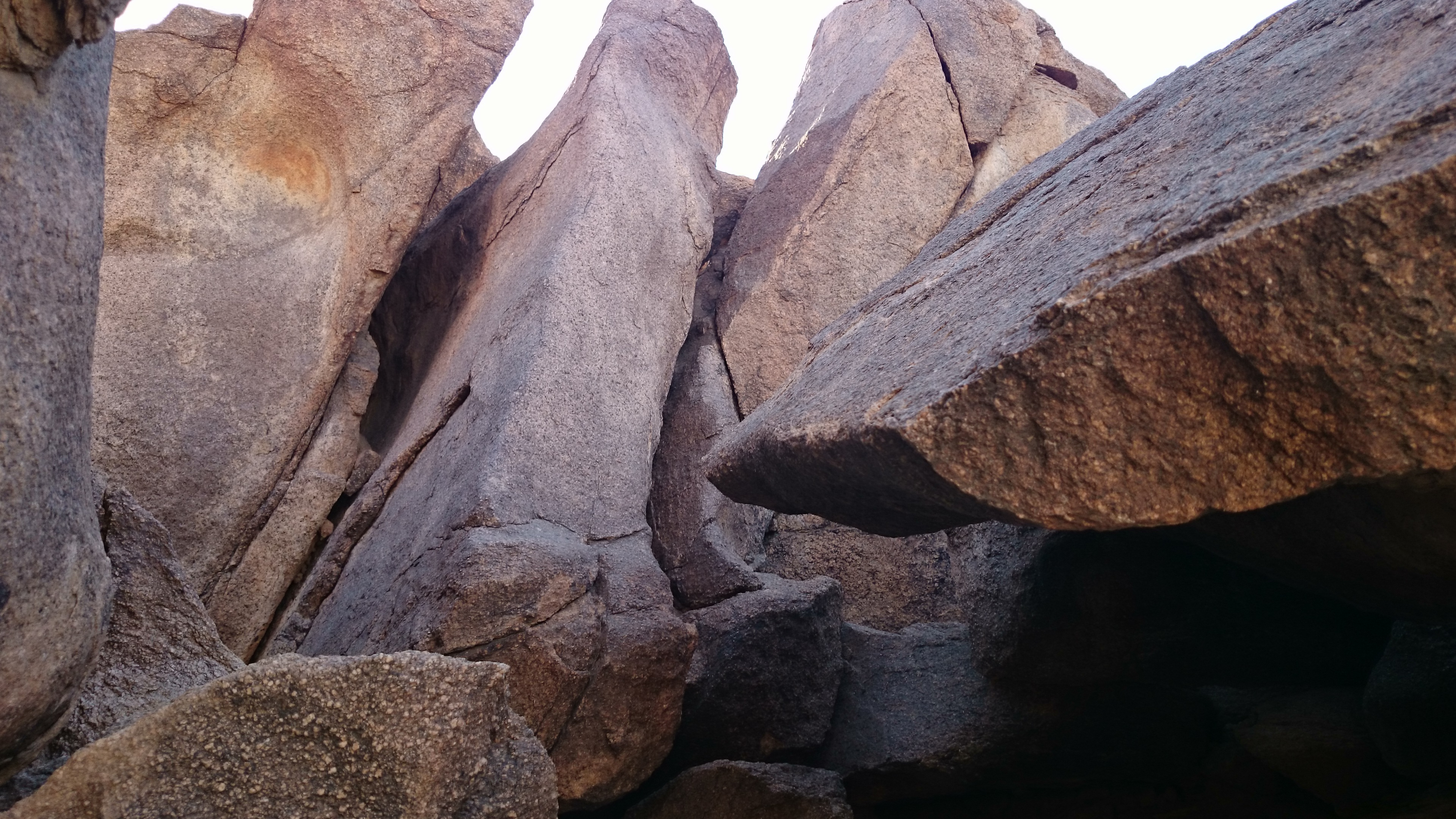 Khasha'a Aljawabirah (Makkah)